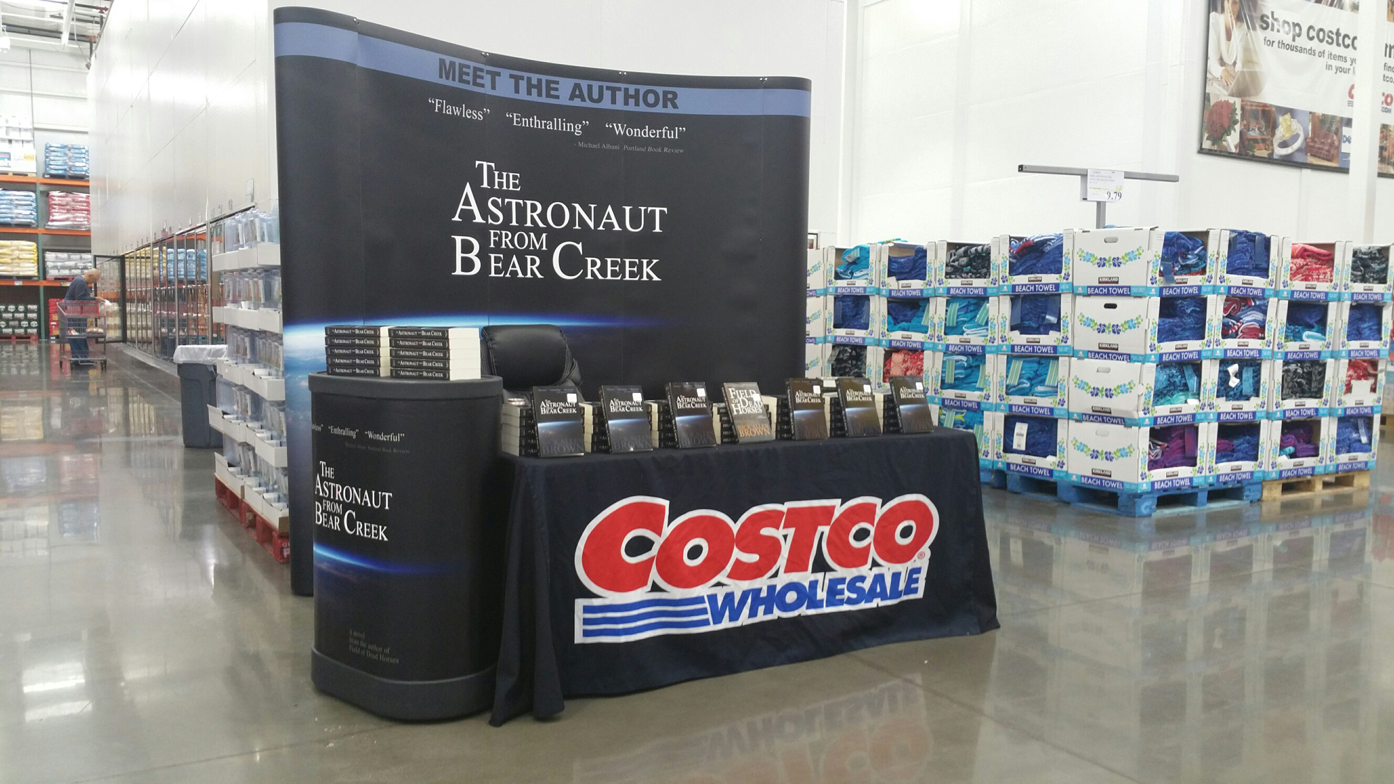 A display set up for a book signing featuring Nick Allen Brown